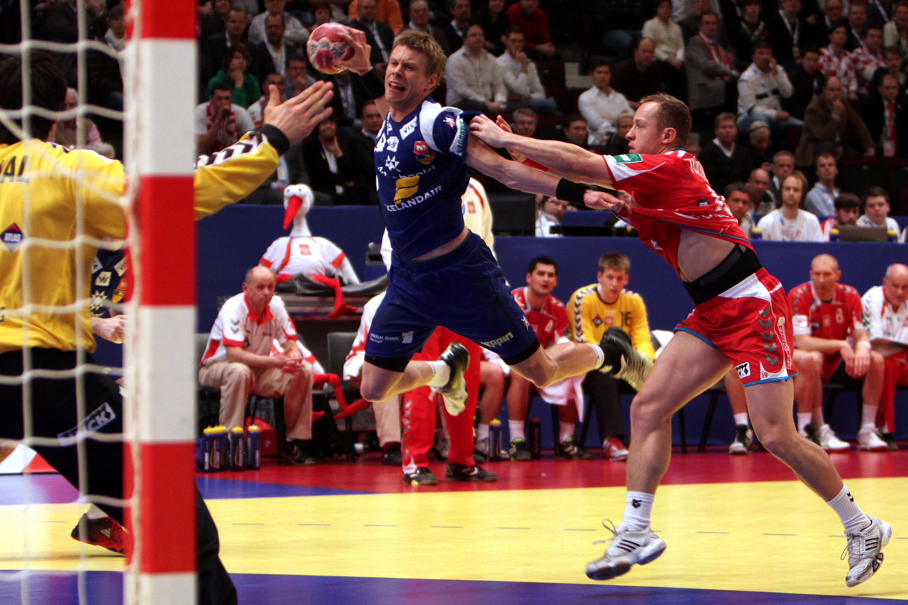 2010 European Men's Handball Championship Semifinal #1: Poland vs Iceland 26:29 — Guðjón Valur Sigurðsson (Iceland national handball team) scores. Tomasz Tłuczyński (Poland national handball team) is too late.